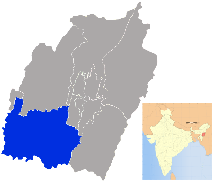 Churachandpur district in Manipur